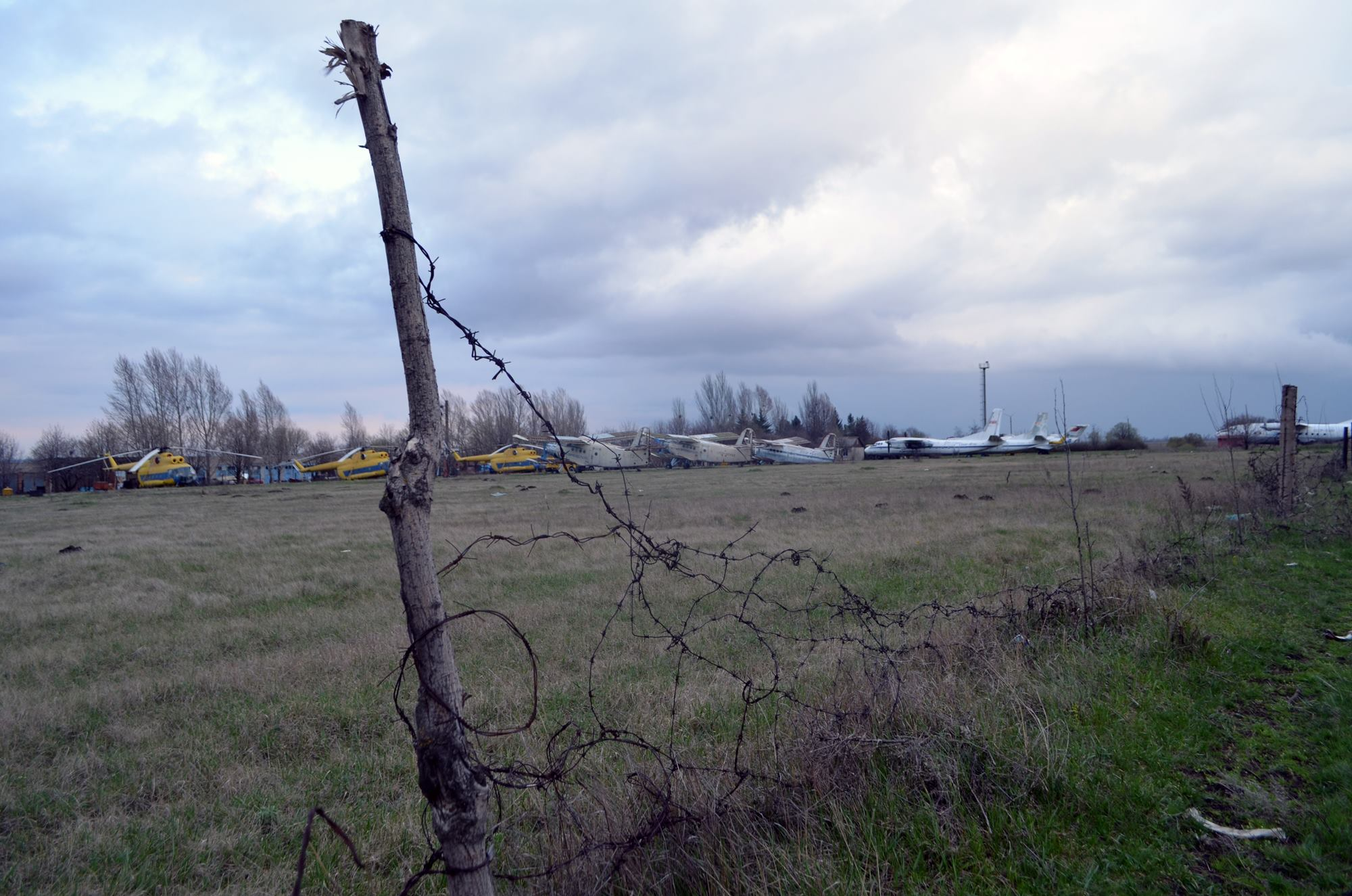 Airfield in Sloviansk, Donetsk oblast, Ukraine, during the Sloviansk standoff.